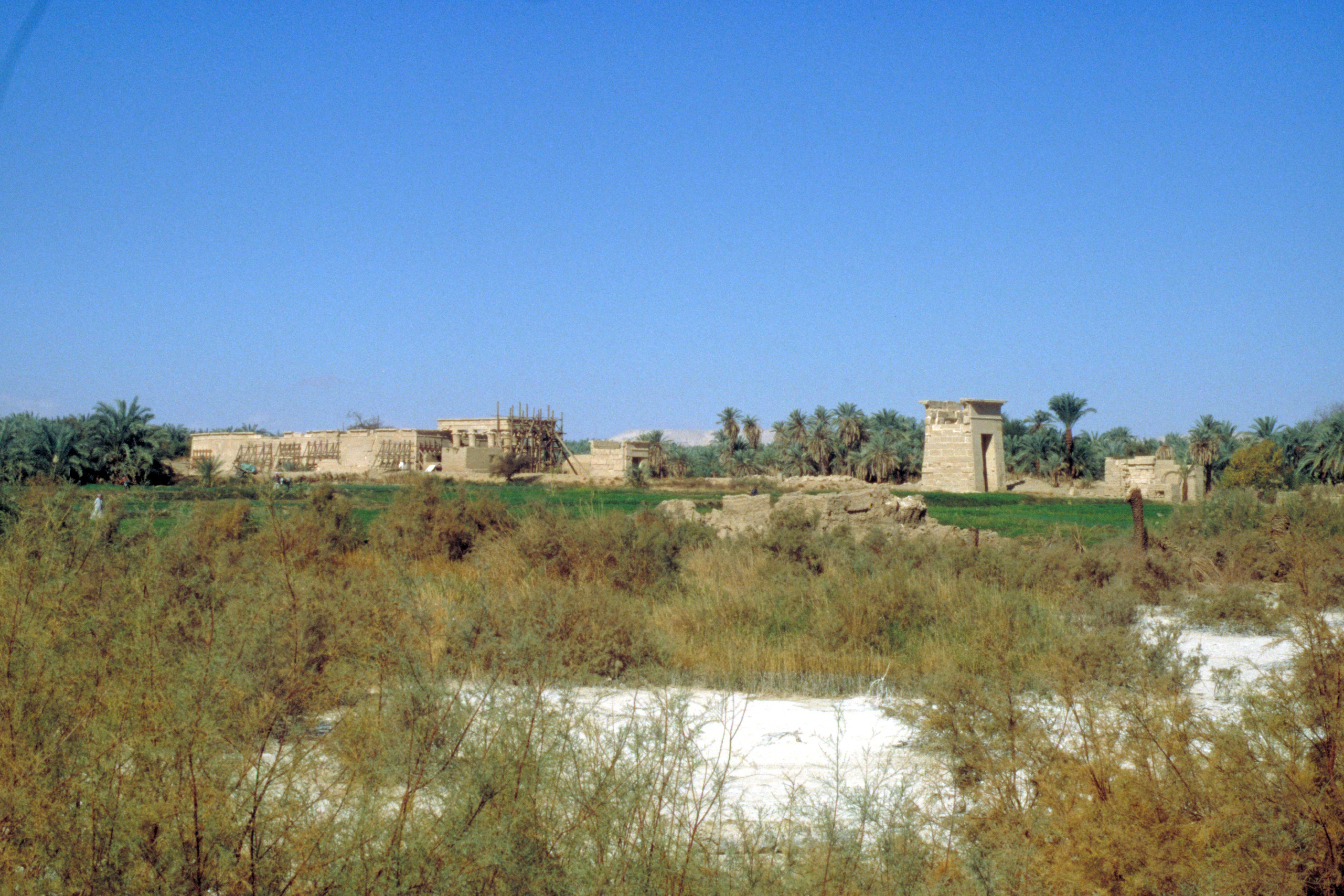 AWIB-ISAW: Hibis, Temple (IV) A distant view of the Hibis Temple dedicated to the Theban triad (Amun, Mut & Khonsu) in the Kharga Oasis during its recent restoration. by NYU Excavations at Amheida Staff copyright: NYU Excavations at Amheida (used with permission) photographed place: Hebet (Hibis) [1] authority: Image published on the authority of the Amheida Project Director, Roger Bagnall Published by the Institute for the Study of the Ancient World as part of the Ancient World Image Bank (AWIB). Further information: [2].